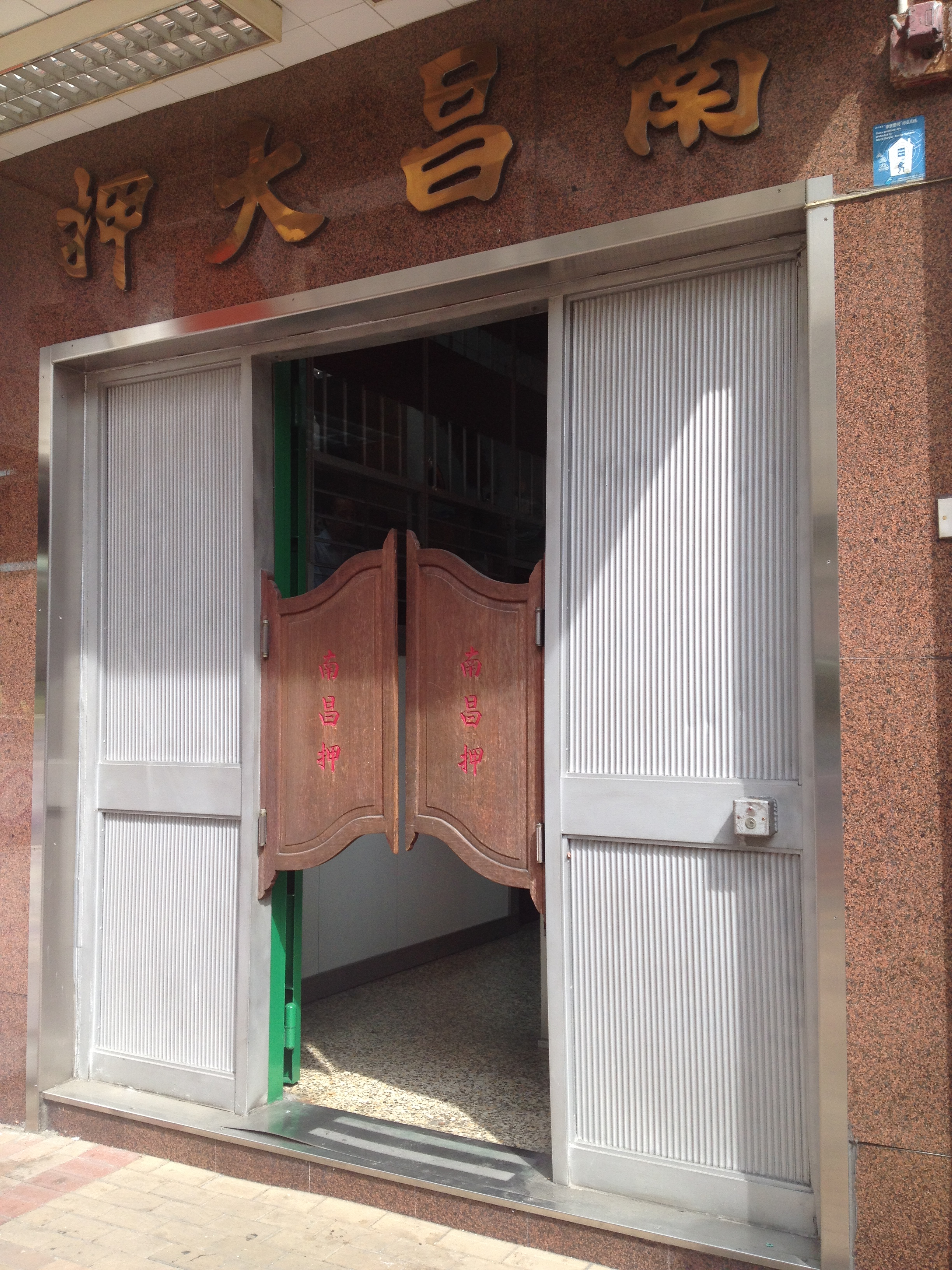 The main entrance of a pawn shop.